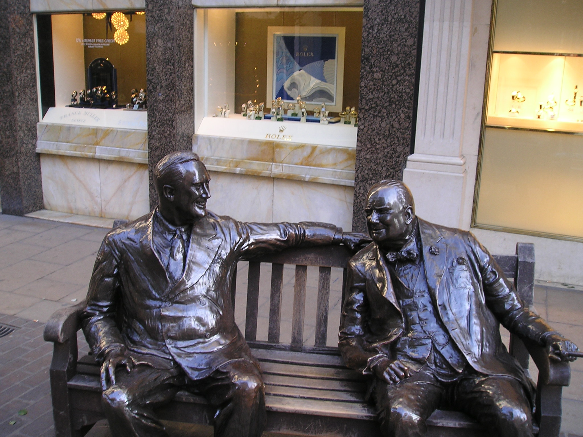 Franklin D. Roosevelt and Winston Churchill, New Bond Street, London. Sculpted by Lawrence Holofcener